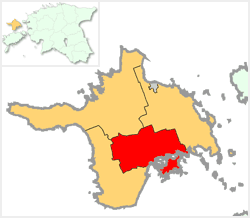 Location map of Käina Commune, Estonia. This image was created by Senzeichi.